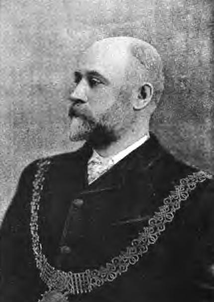 Sir Albert Seale Haslam. Mayor of Derby in 1891 on the day of the Queens visit. From the book of the day